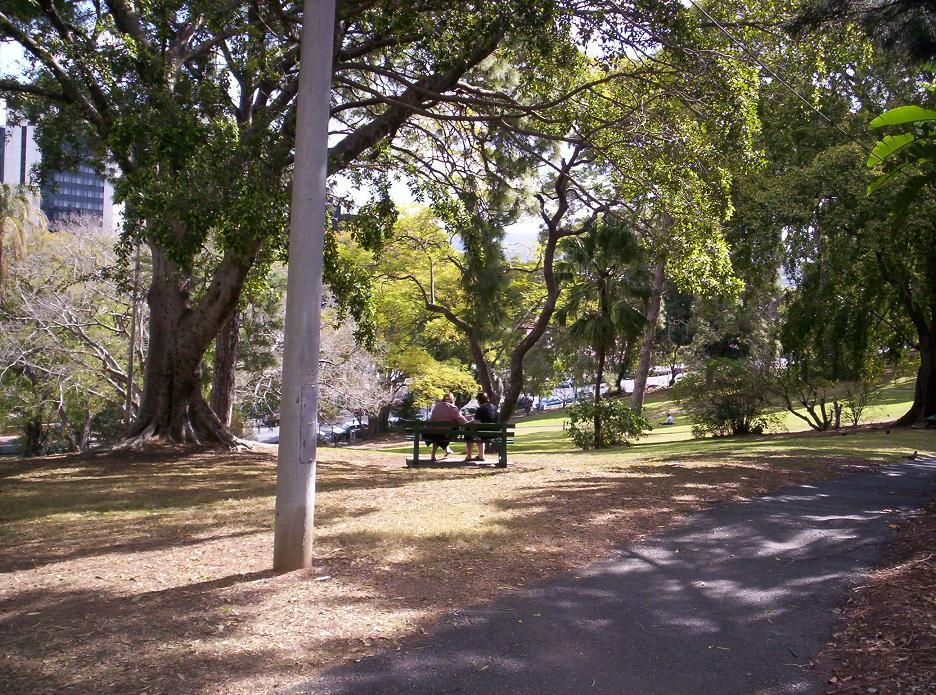 Pathway in Wickham Park at Wickham Terrace in Brisbane, Australia ( this photograph was taken by Figaro )